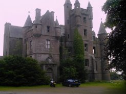 Balintore Castle , Taken by Gareth Wimpenny